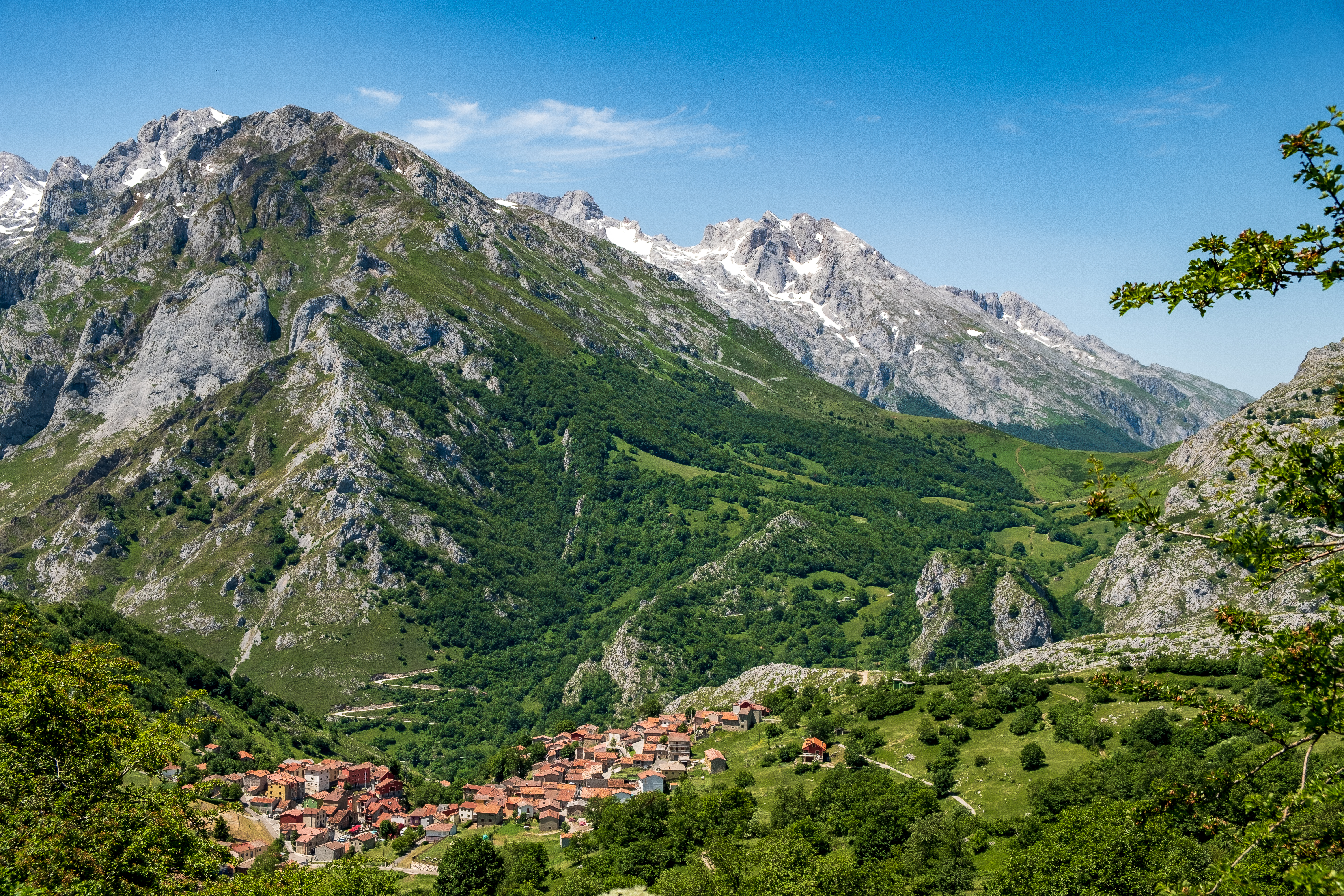 Sotres, as seen from above with distant peaks in the Picos de Europa National Park as seen in Summer